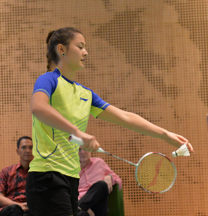 Gronya Somerville at the friendly match badminton Australia and Indonesia 2016 in Australian Embassy Jakarta